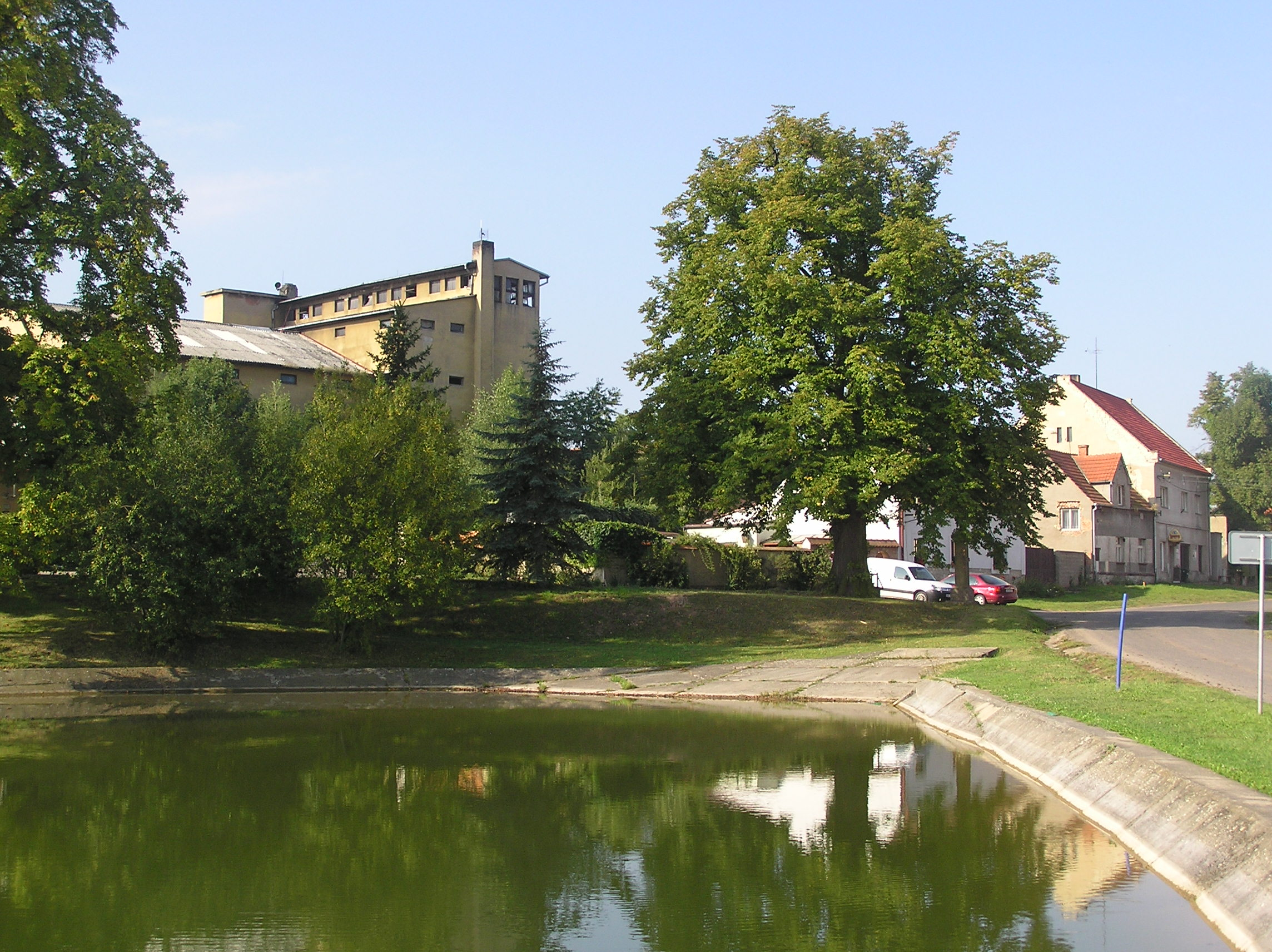 Pond, linden and drying hops in Hořany